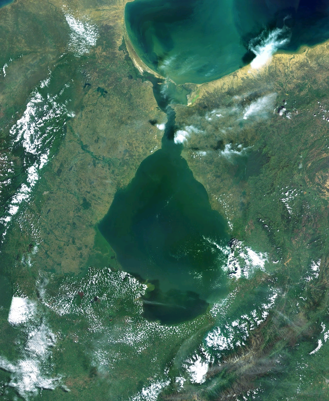 Satelites image of Lake Maracaibo